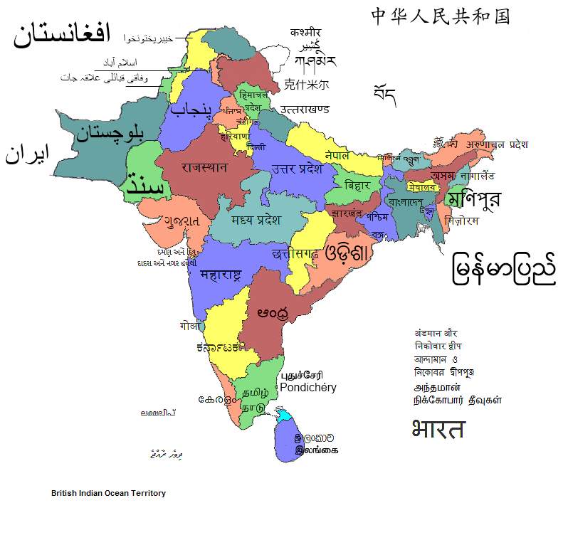 States of South Asia, with their names written in the dominant local script.